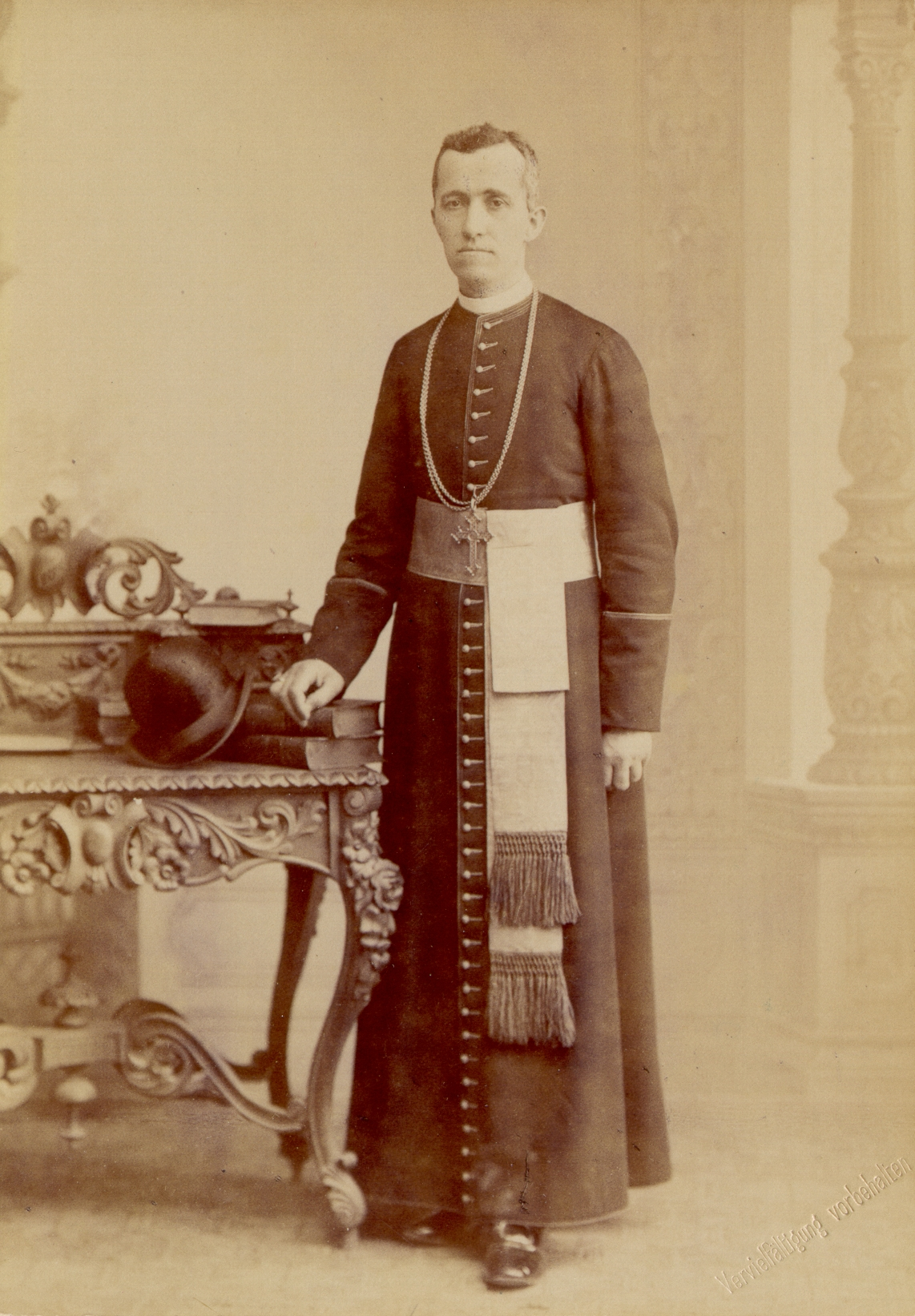 Anton Bonaventura Jeglič (1850-1937), slovene bishop and politician.